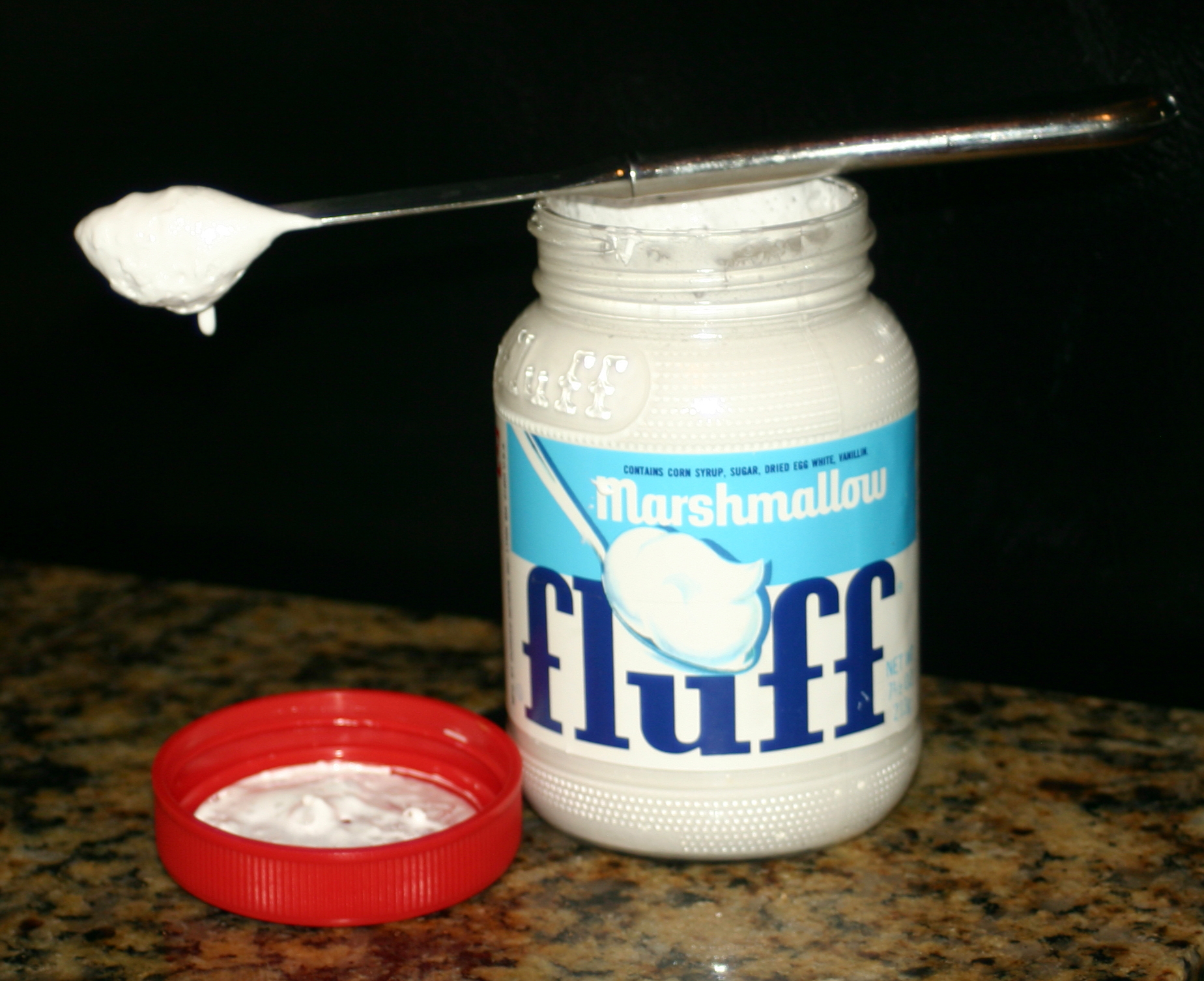 Marshmellow fluff